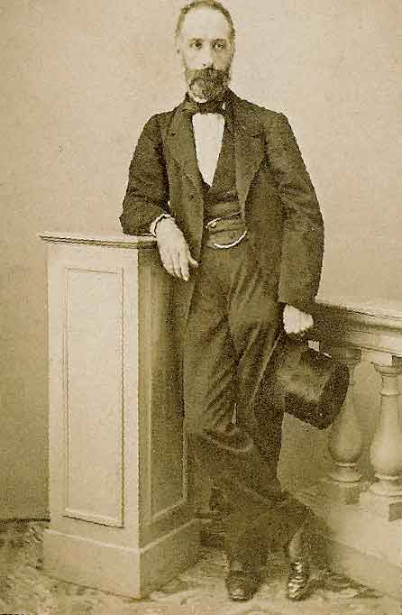 The Italian politician Francesco Crsipi (1818-1901) Member of Parliament.